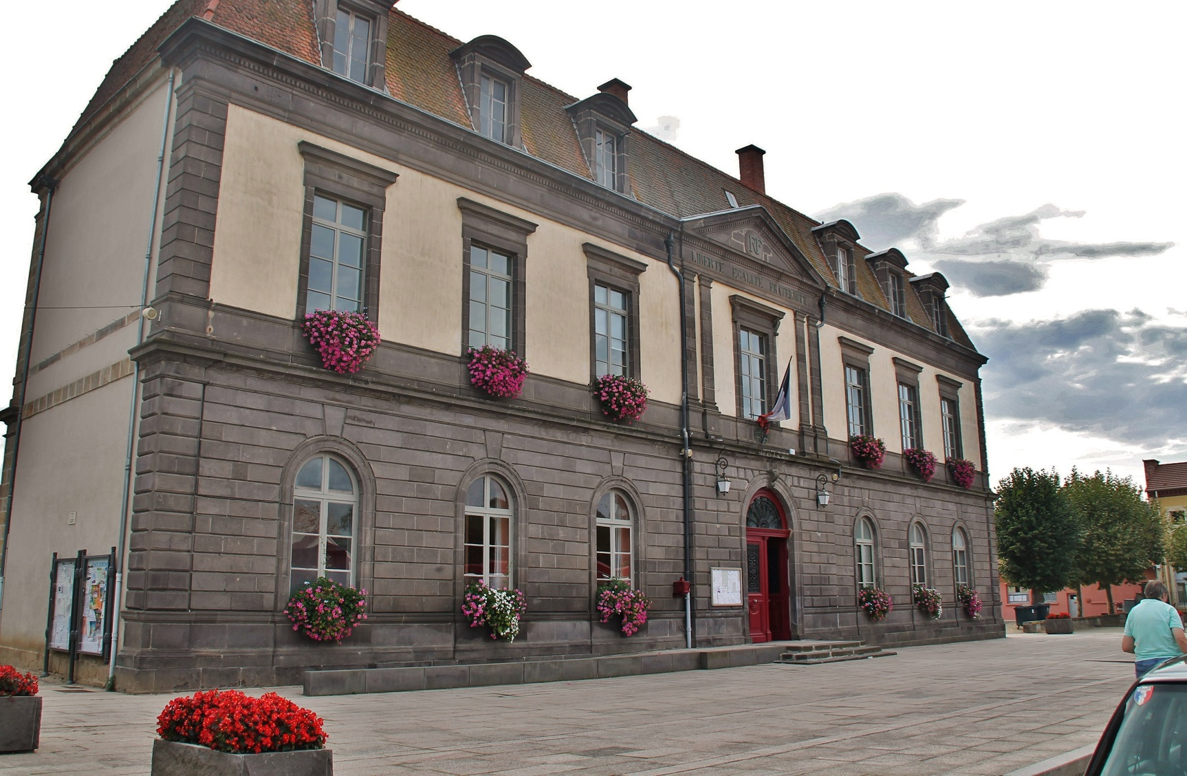 La Mairie